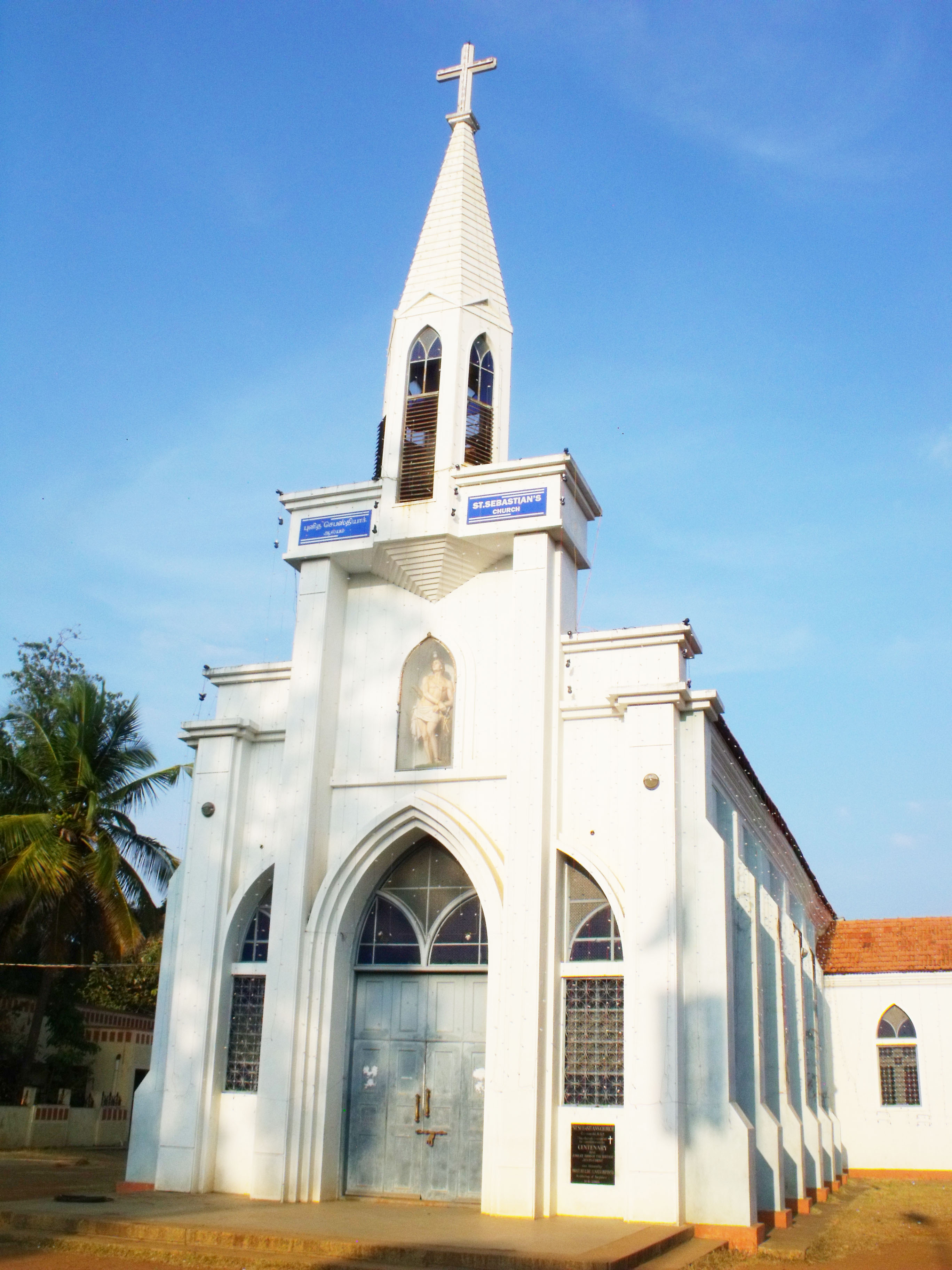 St Sebastian Church Coromandel KGF,the oldest church in KGF